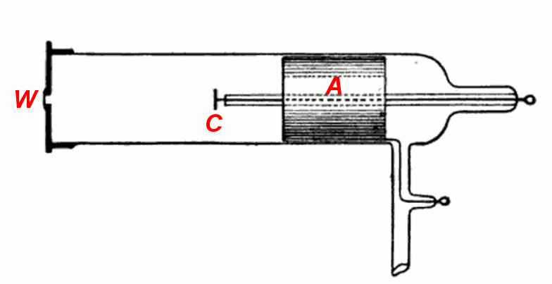 A Crookes tube constructed by German physicist Phillipp Lenard in 1894, which he used to study electrons. It is a partially evacuated glass tube with a metal plate cathode electrode (C) at one end, surrounded by a cylindrical anode electrode (A). Facing the cathode is a small hole in the glass tube covered by a thin aluminum foil (W), just thick enough to keep the atmosphere out, this came to be called a Lenard window. When a high negative voltage of several thousand volts is applied to the cathode, cathode rays (electrons) are projected from the cathode plate. When they hit the thin window, some are able to penetrate and leave the tube into the open air. This convenient source of electrons allowed Lenard to perform experiments determining the penetrating power of electrons. Lenard received the 1905 Nobel prize in physics for this work. Alterations to image: Added red labels